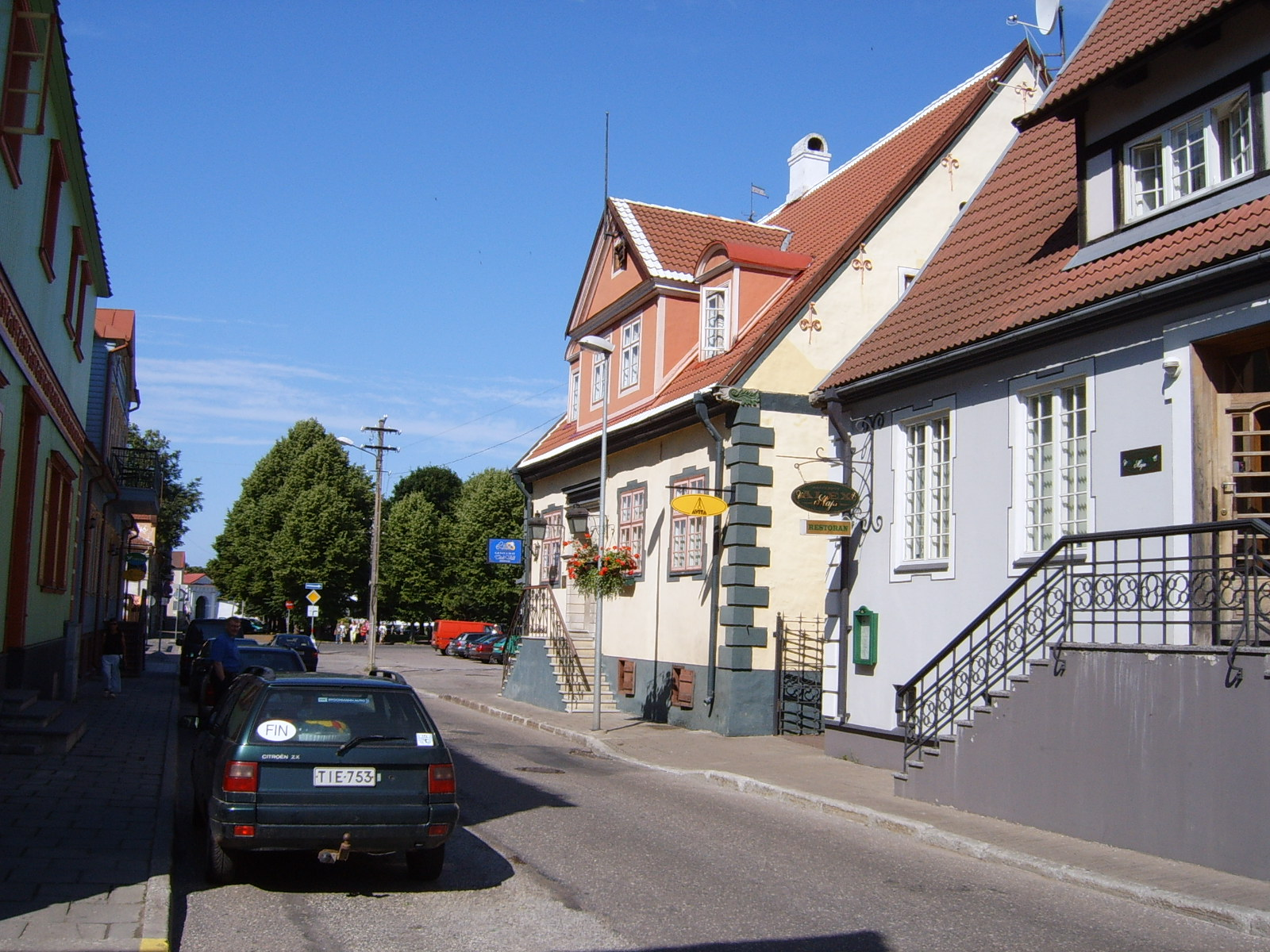 Pärnu, Estonia, centrum